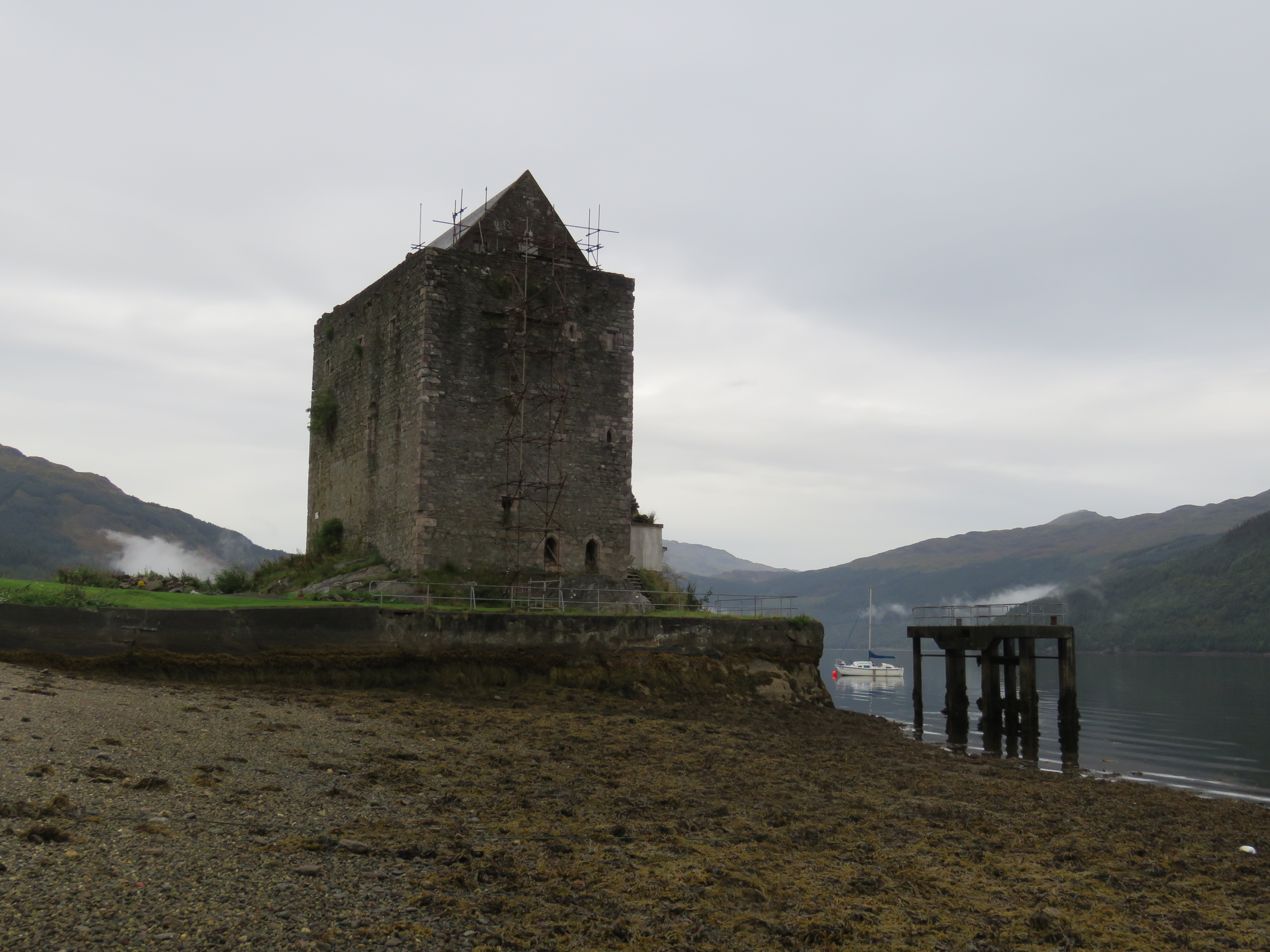 Castle Carrick, Argyll, Scotland